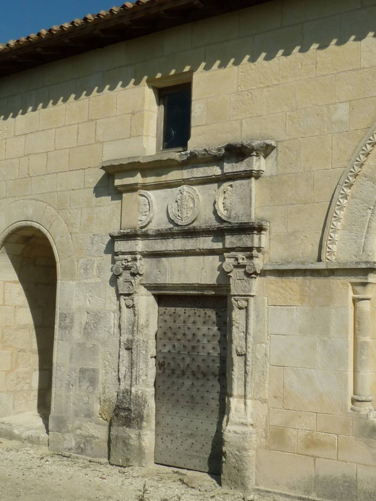 abbey of La Frenade, Merpins, Charente, SW France